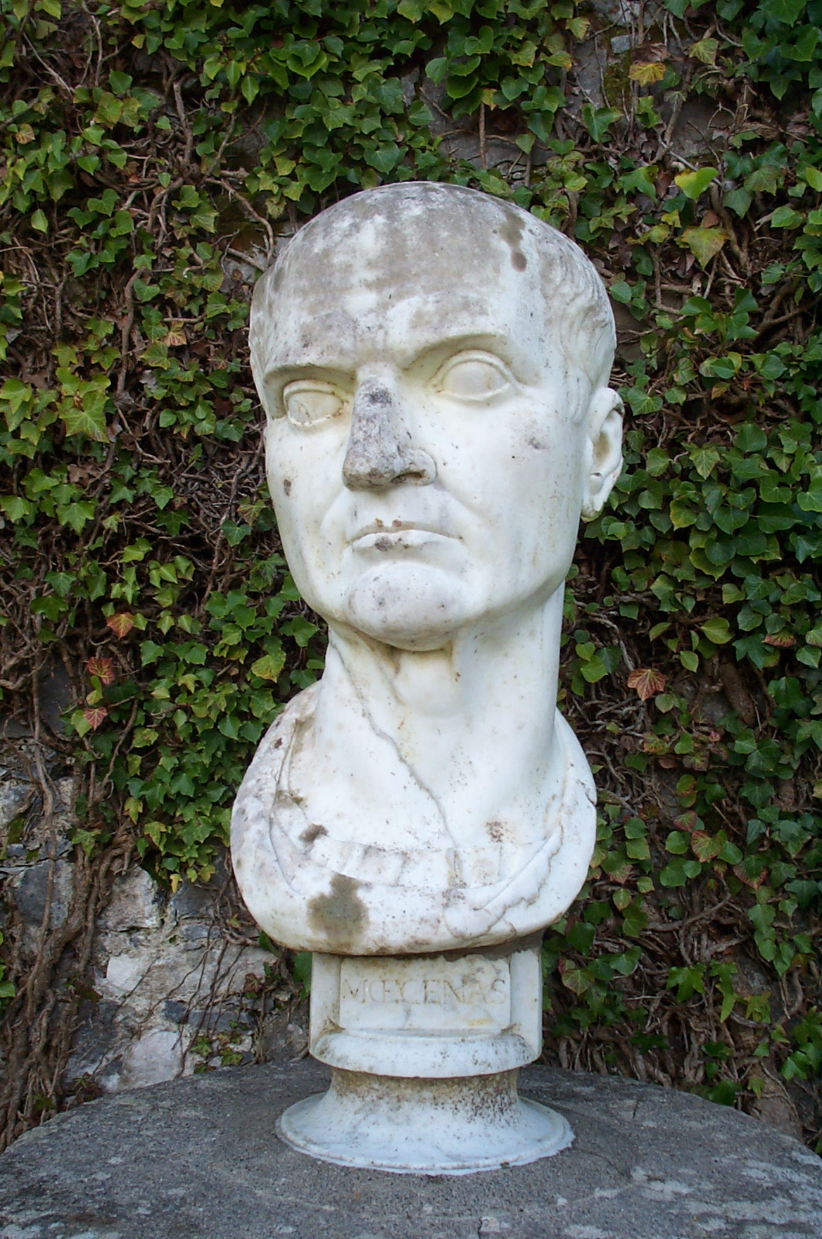 bust of Maecenas (Roman statesman, writer, & patron of poets, 70-8 BC), located at Coole Park, Co. Galway, Ireland